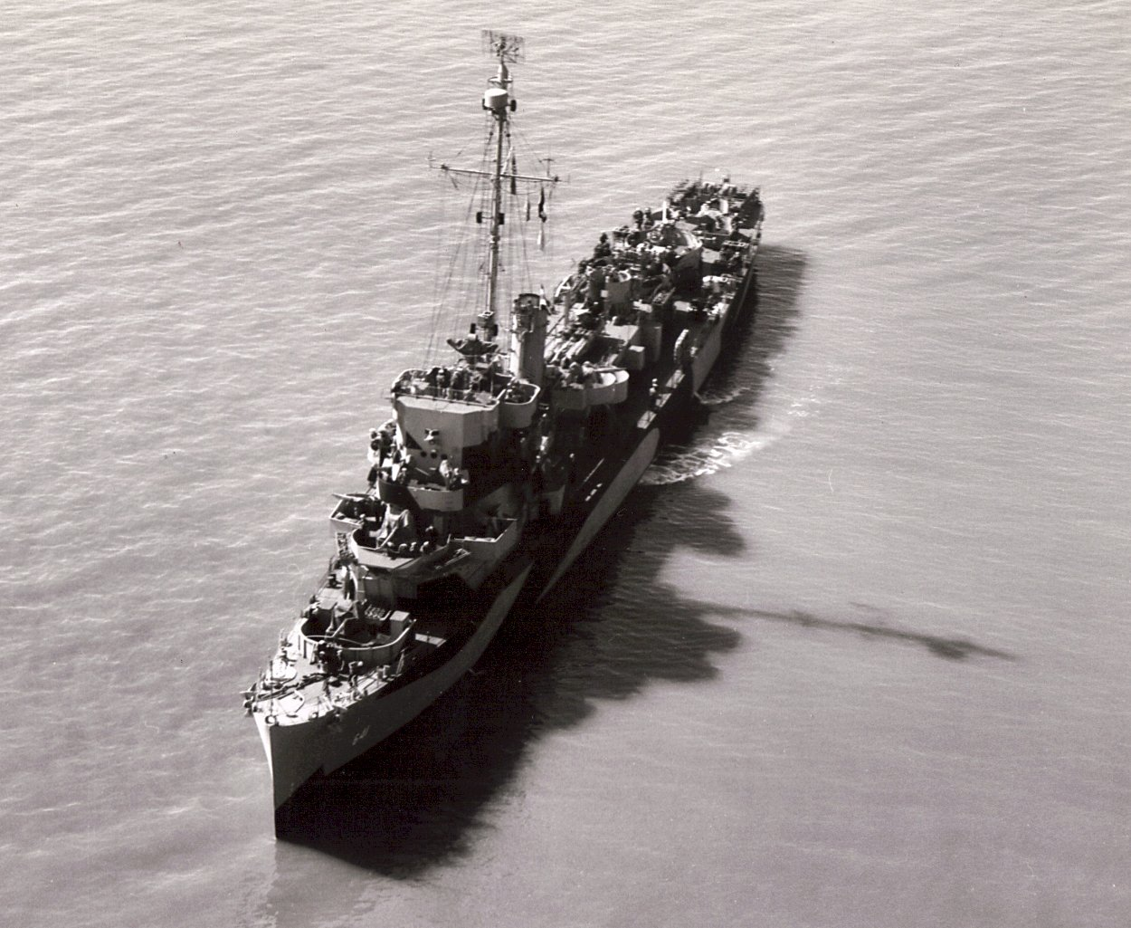 The U.S. Navy destroyer escort USS William C. Cole (DE-641) in San Francisco Bay (USA) on 23 May 1944.